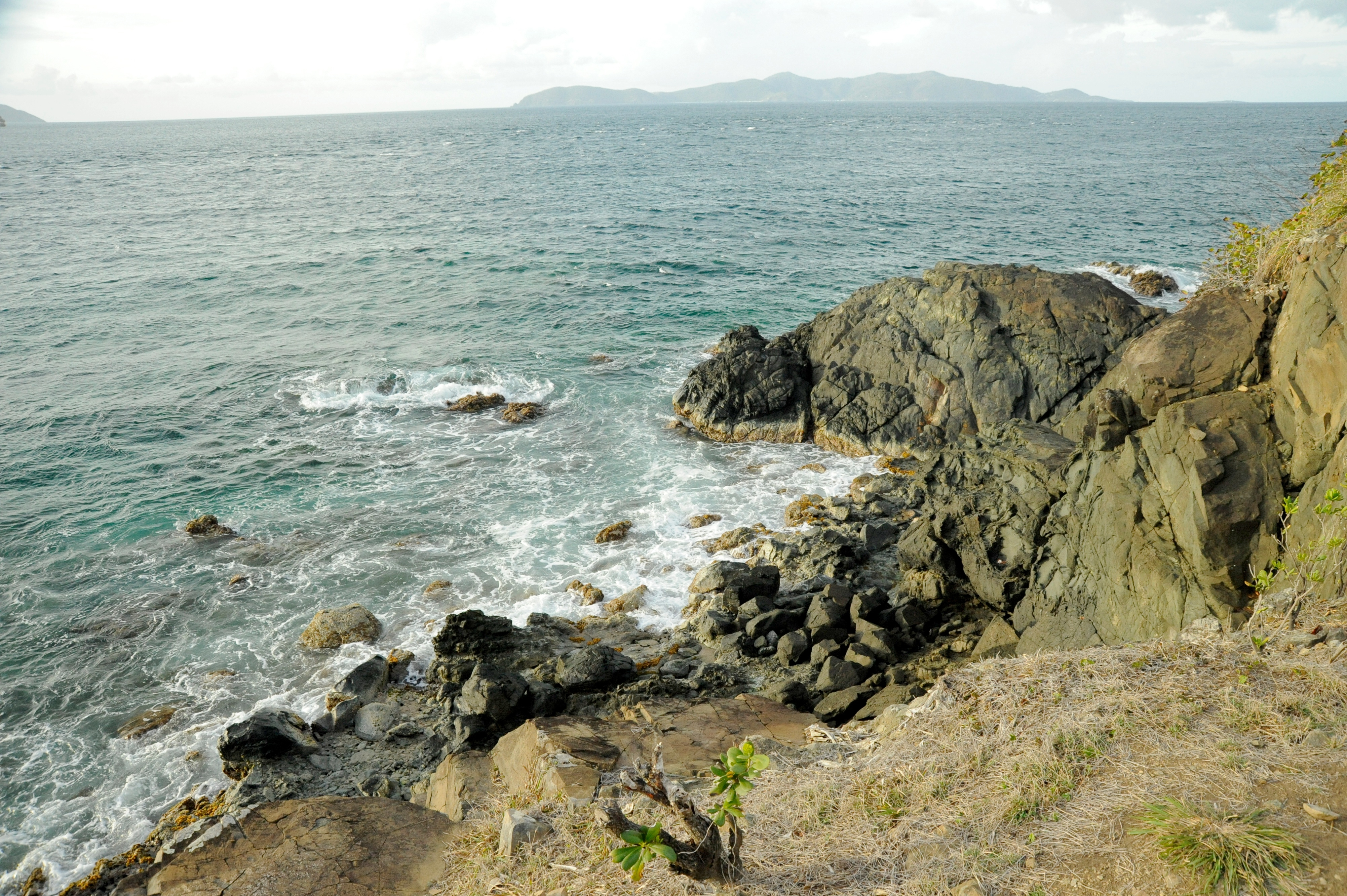 Turtle Point Trail at Caneel Bay